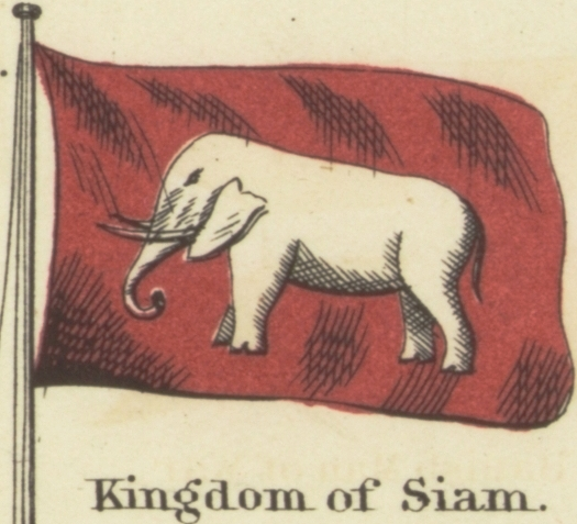 Kingdom of Siam. Johnson's new chart of national emblems, 1868.jpg Johnson's new chart of national emblems. Print showing the flags of various countries, those flown by ships, and the "Signals for Pilots." In the top left corner is the "United States" 37-star flag, in the top right corner is the "Royal Standard of the United Kingdom Great Britain & Ireland"; in the bottom left corner is the "Russian Standard" and in the bottom right corner is the "French Standard." The flags on this sheet differ slightly from those on another sheet numbered 4 [top left] and 5 [top right].